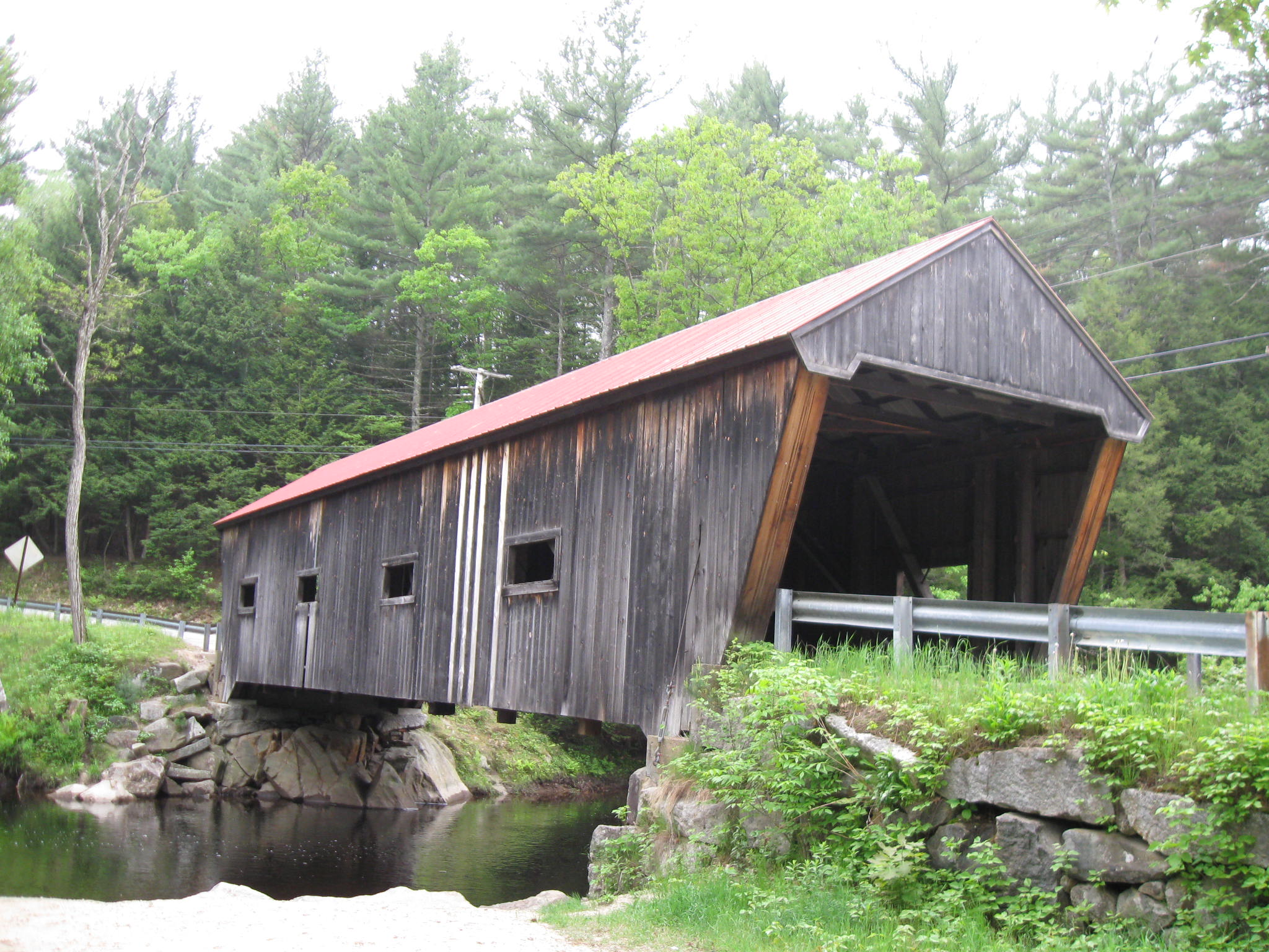 Dalton Covered Bridge over Warner River, Warner, New Hampshire. Photo by Ken Gallager, May 28, 2011.